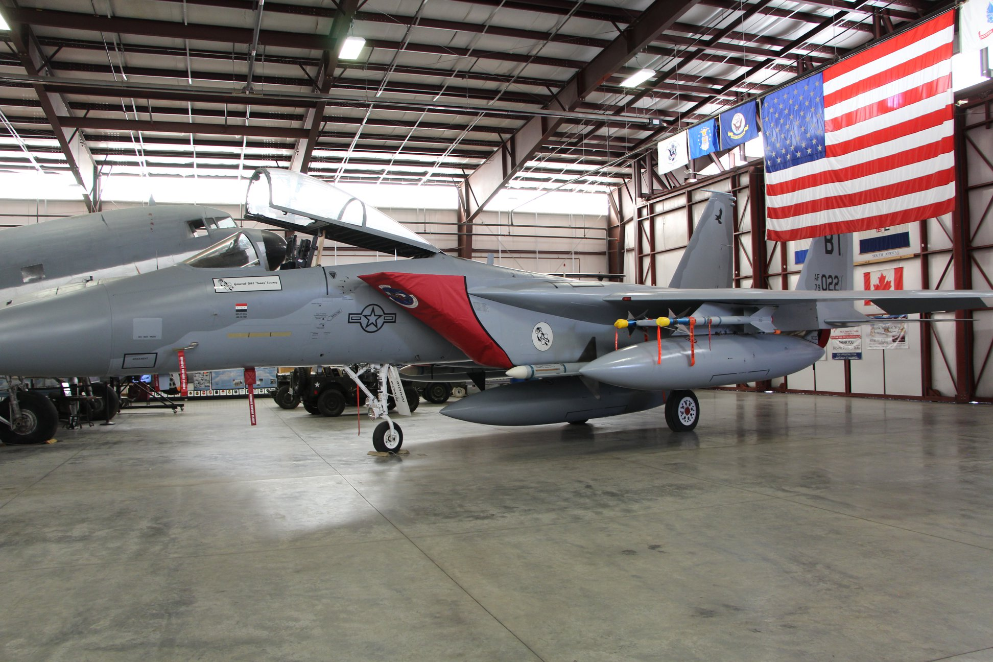 22nd Fighter Squadron F-15 Tail 79-0022